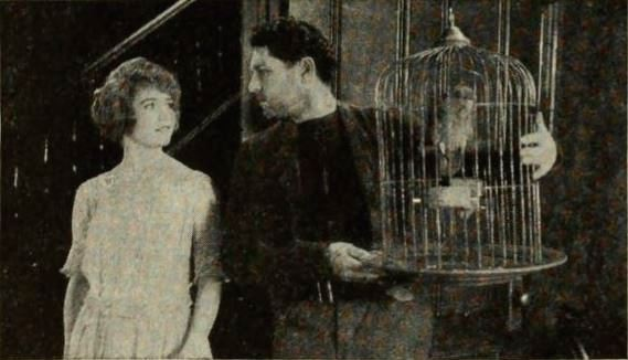 Still from the American drama film The Bonded Woman (1922) with Betty Compson and John Bowers, on page 60 of the October 1922 Photoplay.